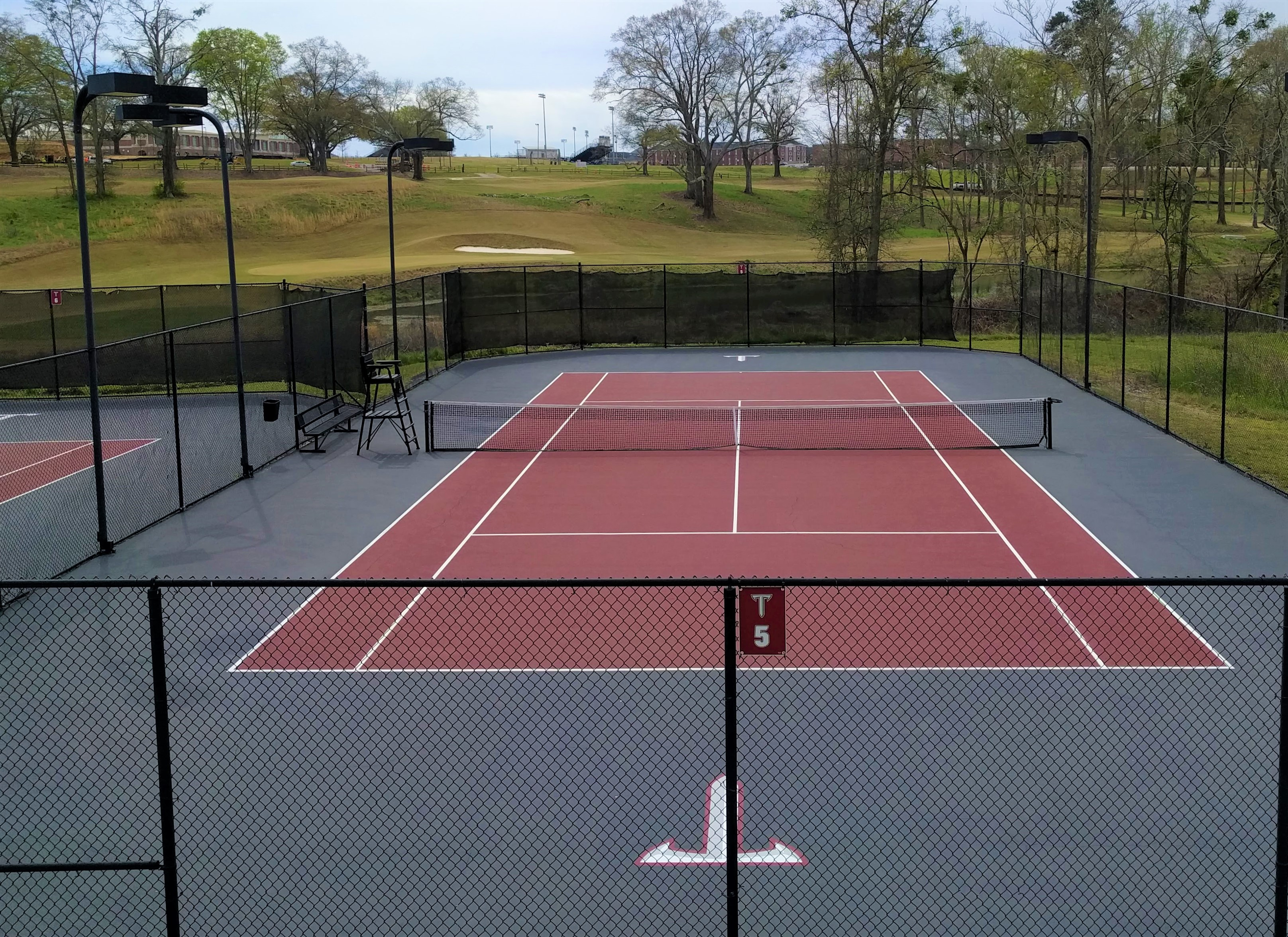 View of tennis court at Lunsford Tennis Complex on Troy University campus.